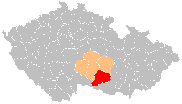 District of Třebíč